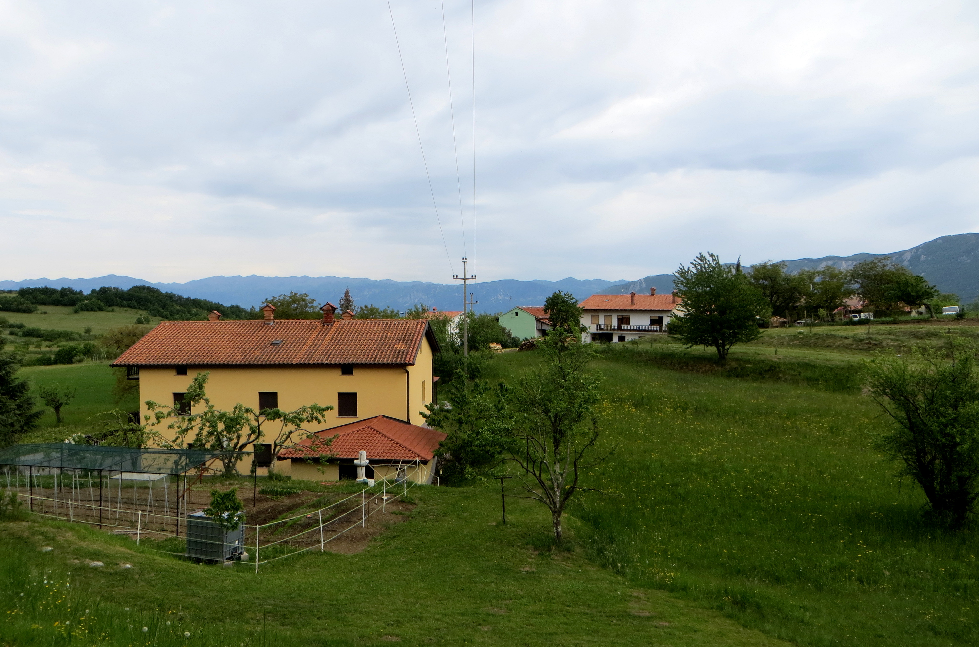 Vrabče, Municipality of Sežana, Slovenia